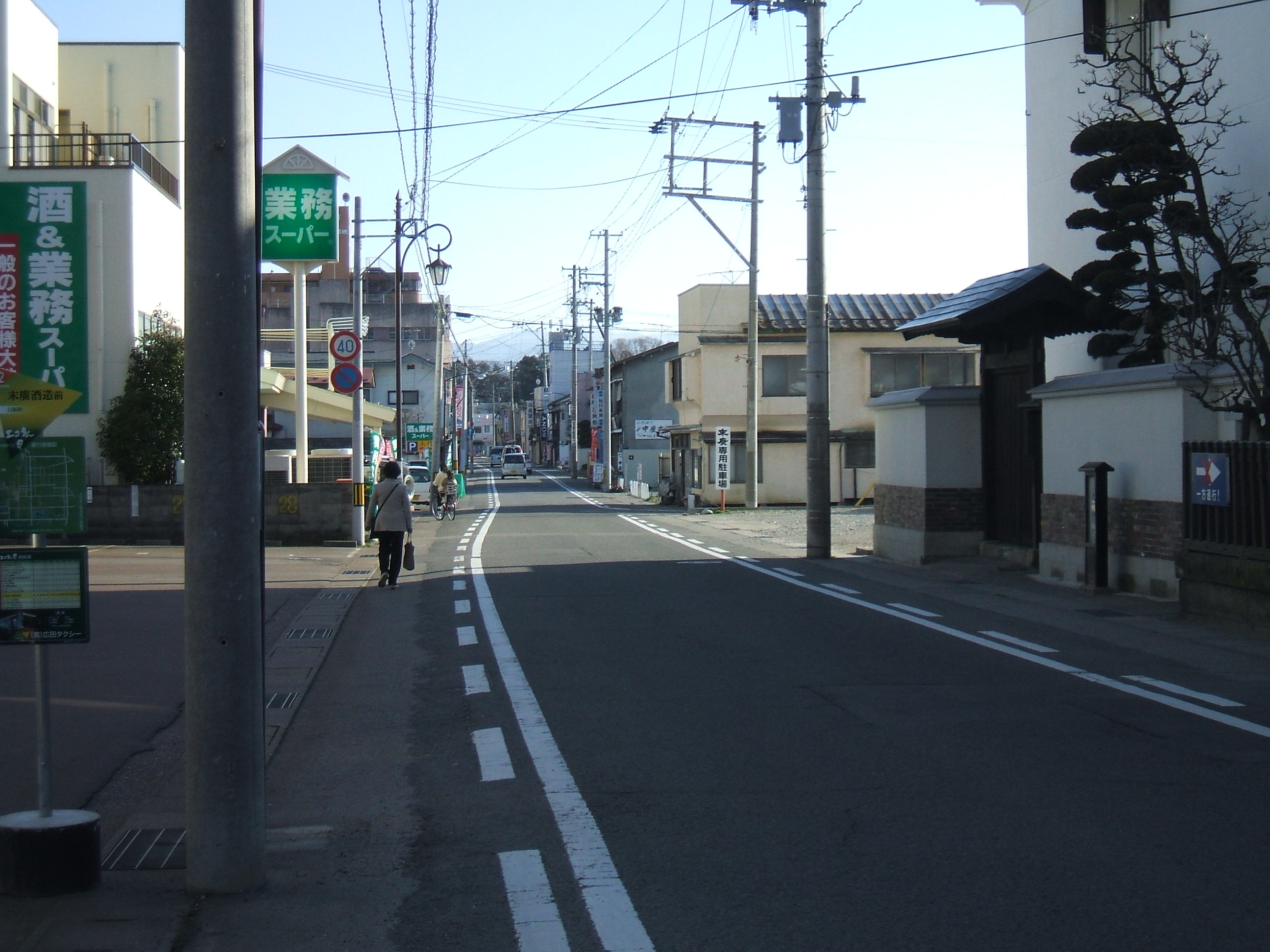 This is a landscape of Nissinmachi, Aizuwakamatsu, Fukushima.